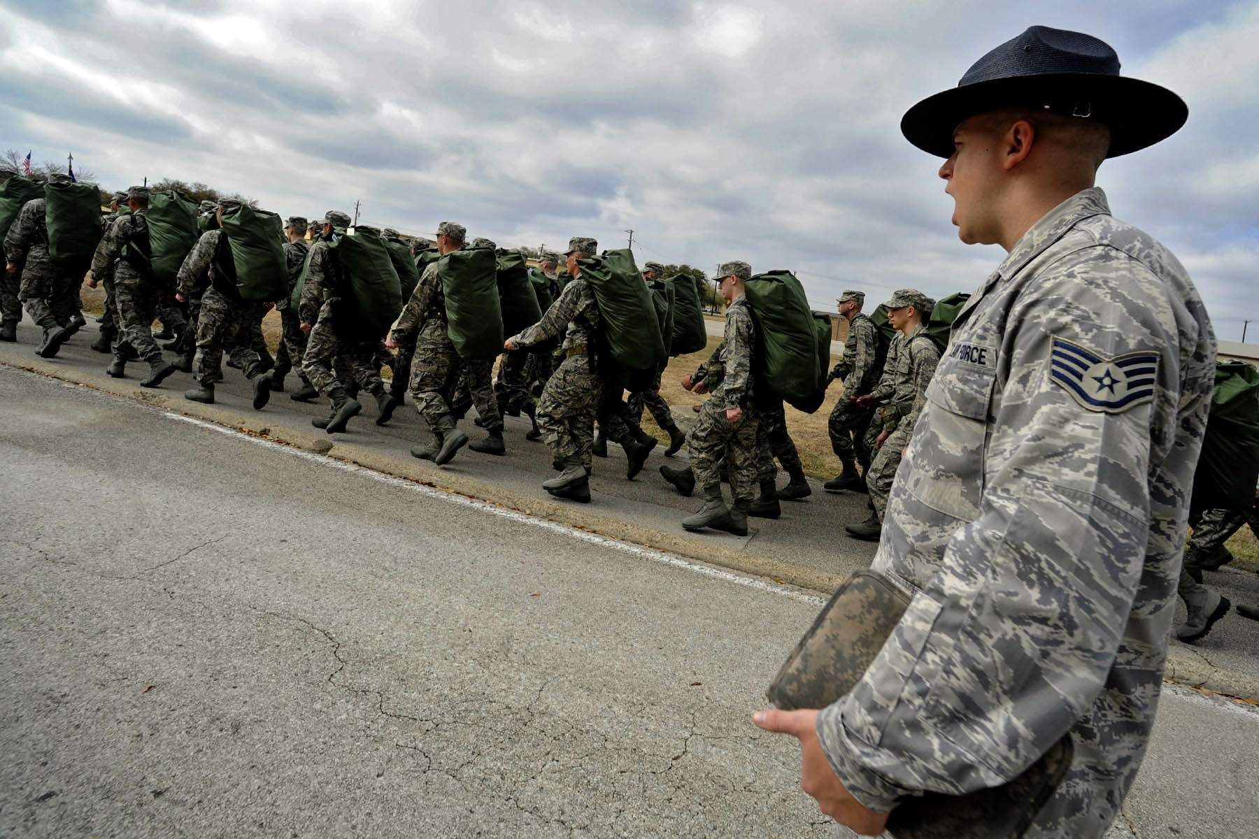 Staff Sergeant Robert George, a military training instructor at Lackland Air Force Base in San Antonio, Texas, marches his flight following the issuance of uniforms and gear. Recruits are molded into warrior Airmen through a recently expanded Air Force Basic Military Training program.